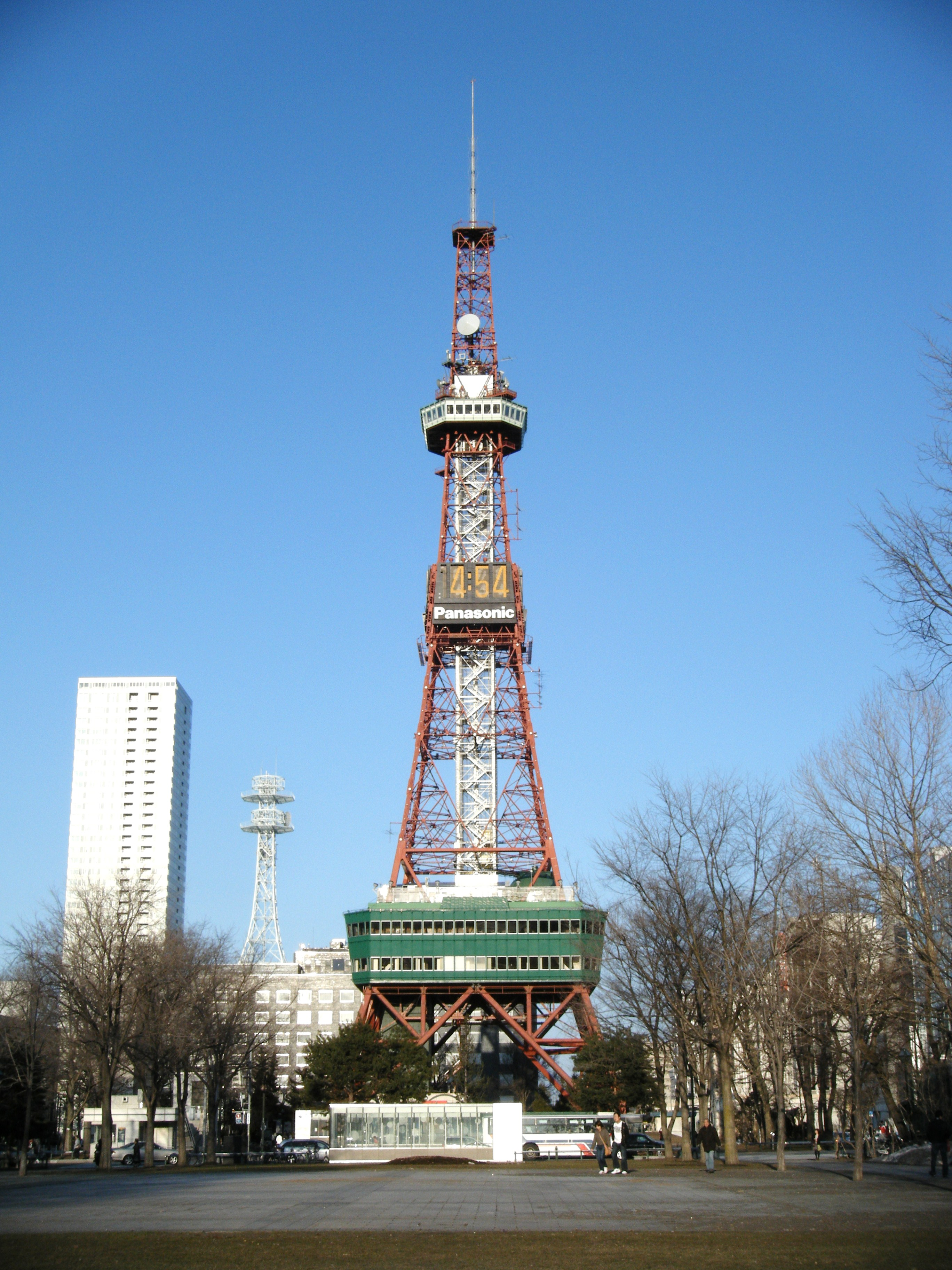 Sapporo television tower（Sapporo, Hokkaido）.